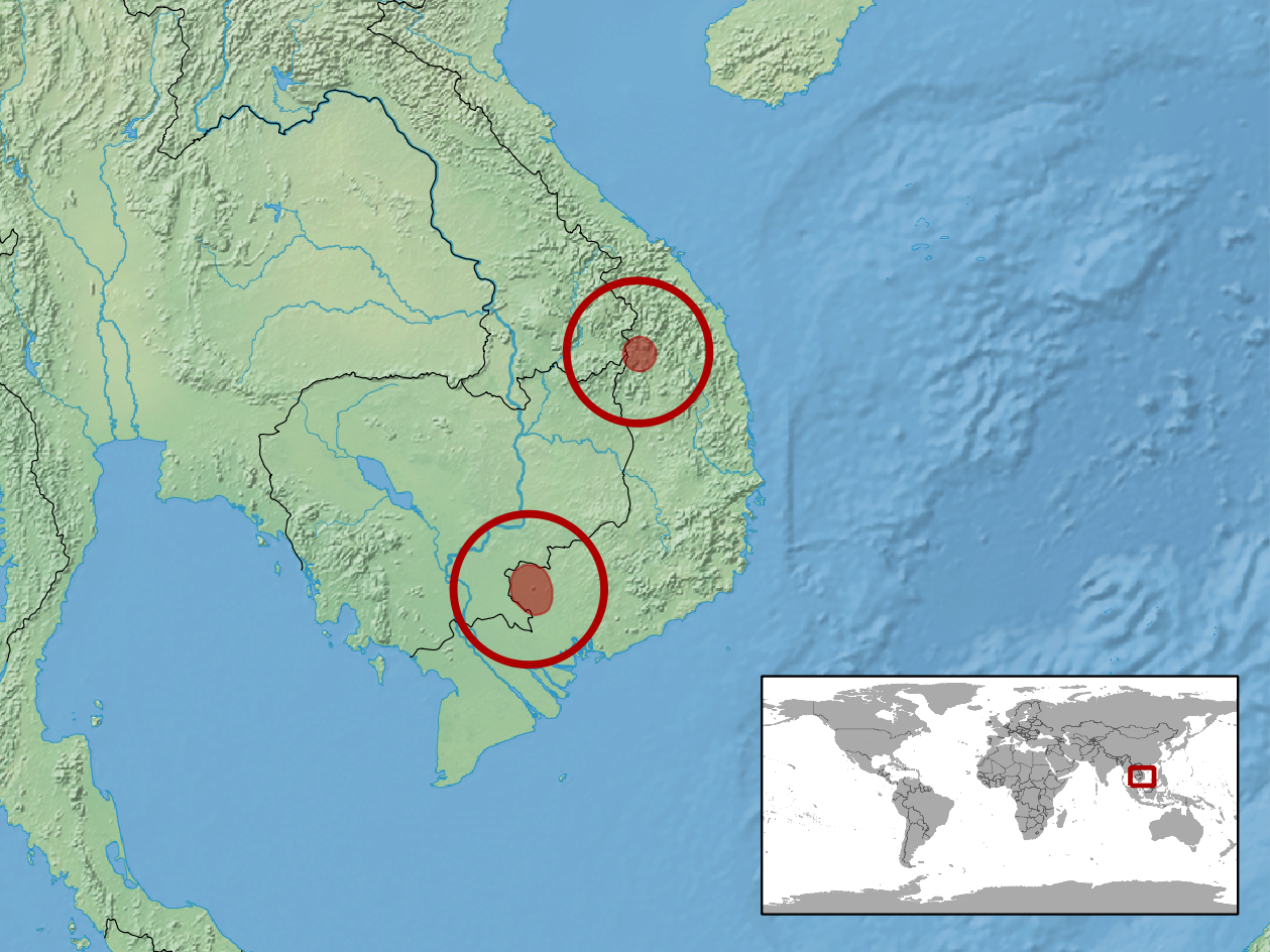 geographic distribution of Gekko badenii (Native: Viet Nam)